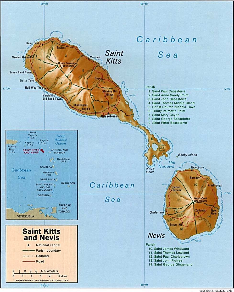 Map of St. Kitts and Nevis, Caribbean